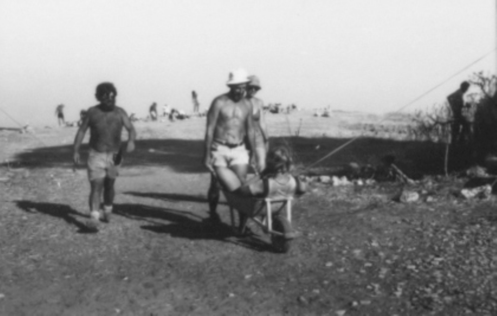 This is one of a set of photos taken during an excavation of Tell el-Hesi in Isreal. The staff member on the left is Dr. Anderson, and the photo is used with his express permission.